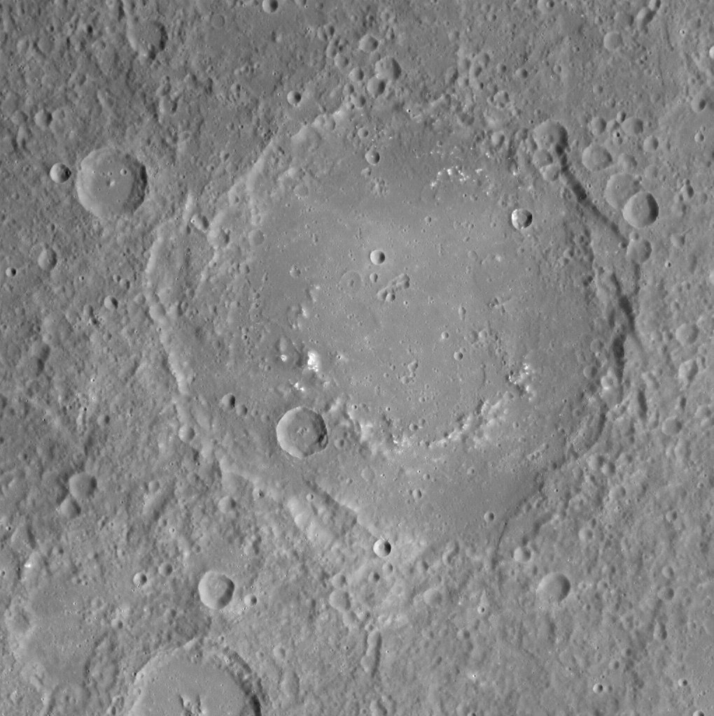 Al-Hamadhani crater on Mercury. MESSENGER Wide Angle Camera image. Approximate north is up. Emission Angle: 9.4 Incidence Angle: 55.0 Latitude: 39.1 Longitude: 267.7 Phase Angle: 55.2